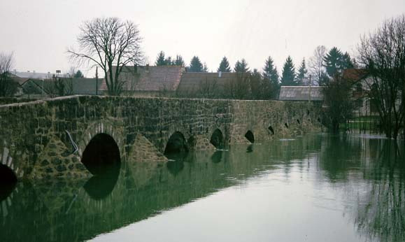 Marshal Marmont bridge (after repairs) in Ostarije, near Ogulin, Croatia